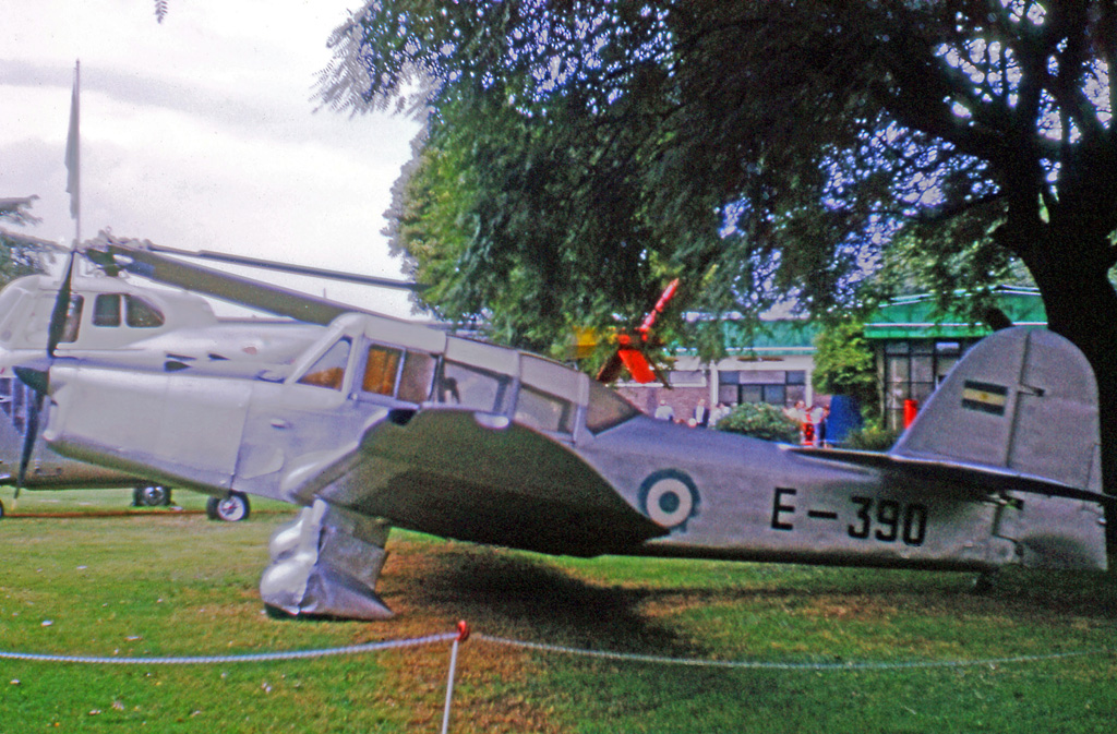 Percival Prentice T.1 E-390 of the Argentine Air Force at the MNA at Aeroparque Bs As in 1972